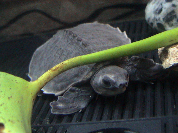 Carettochelys insculpta